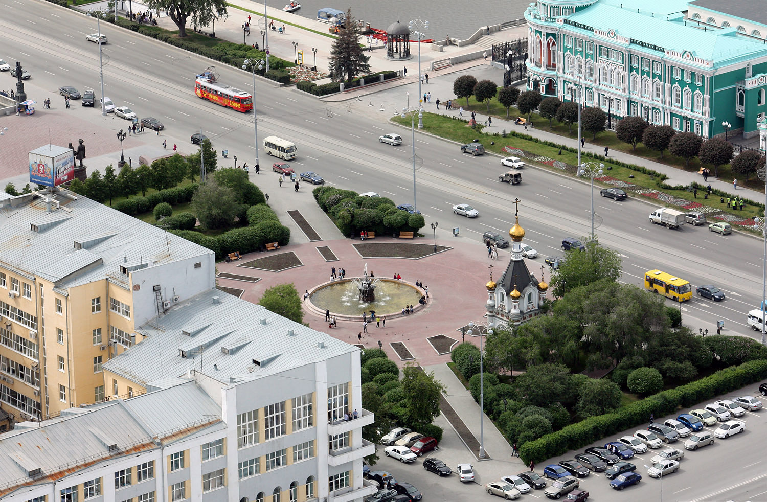 Ekaterinburg. Square of labor